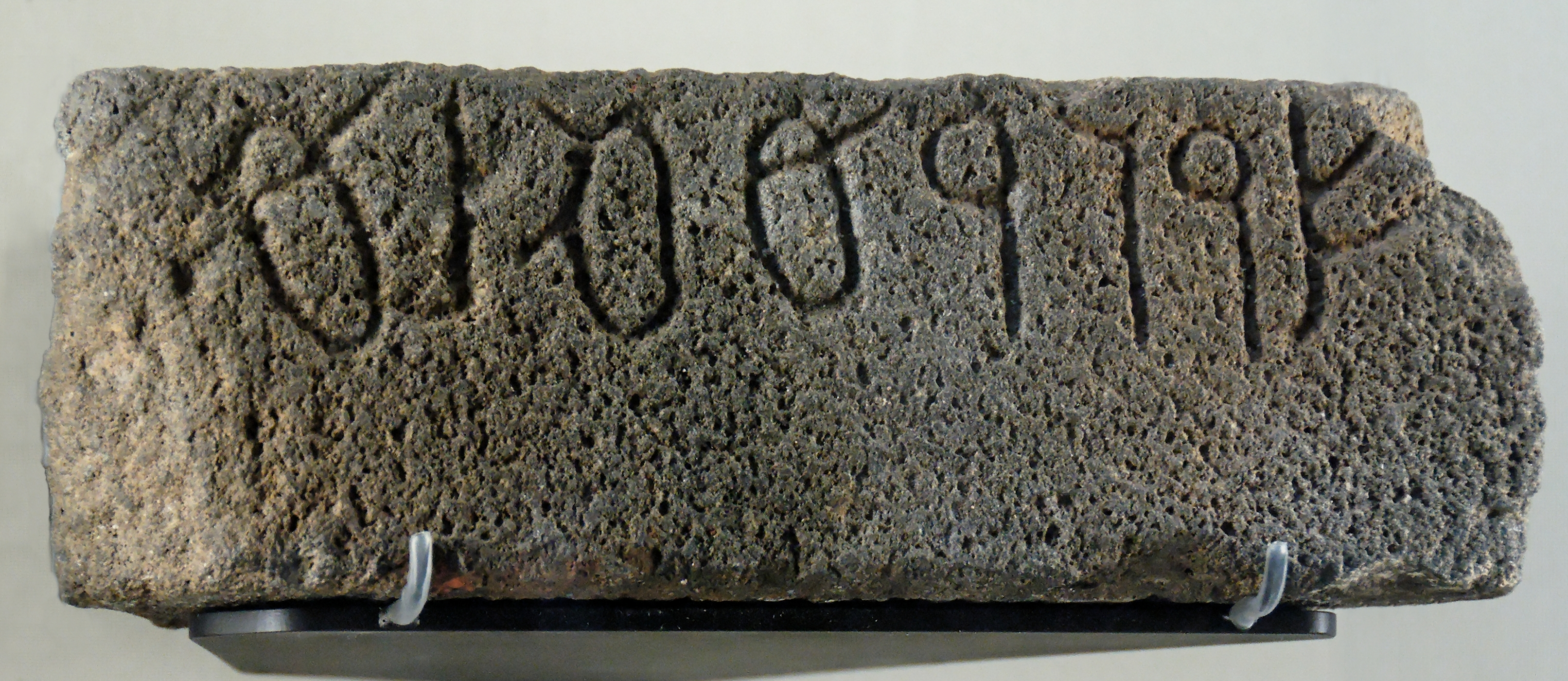 Fragmentory inscription bearing the signature of “Shudu, craftsman” in Nabataean script.